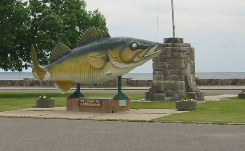 This large walleye on the shores of Mille Lacs lake greets visitors to Garrison, Minnesota.